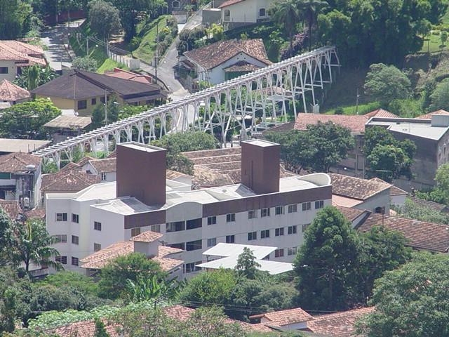 Nova Lima (MG), Brazil - Bicame Lugar construido pelos Ingleses com reduto para a passagem de água para a lavagem do ouro. Aquaduct constructed by the English to wash gold.